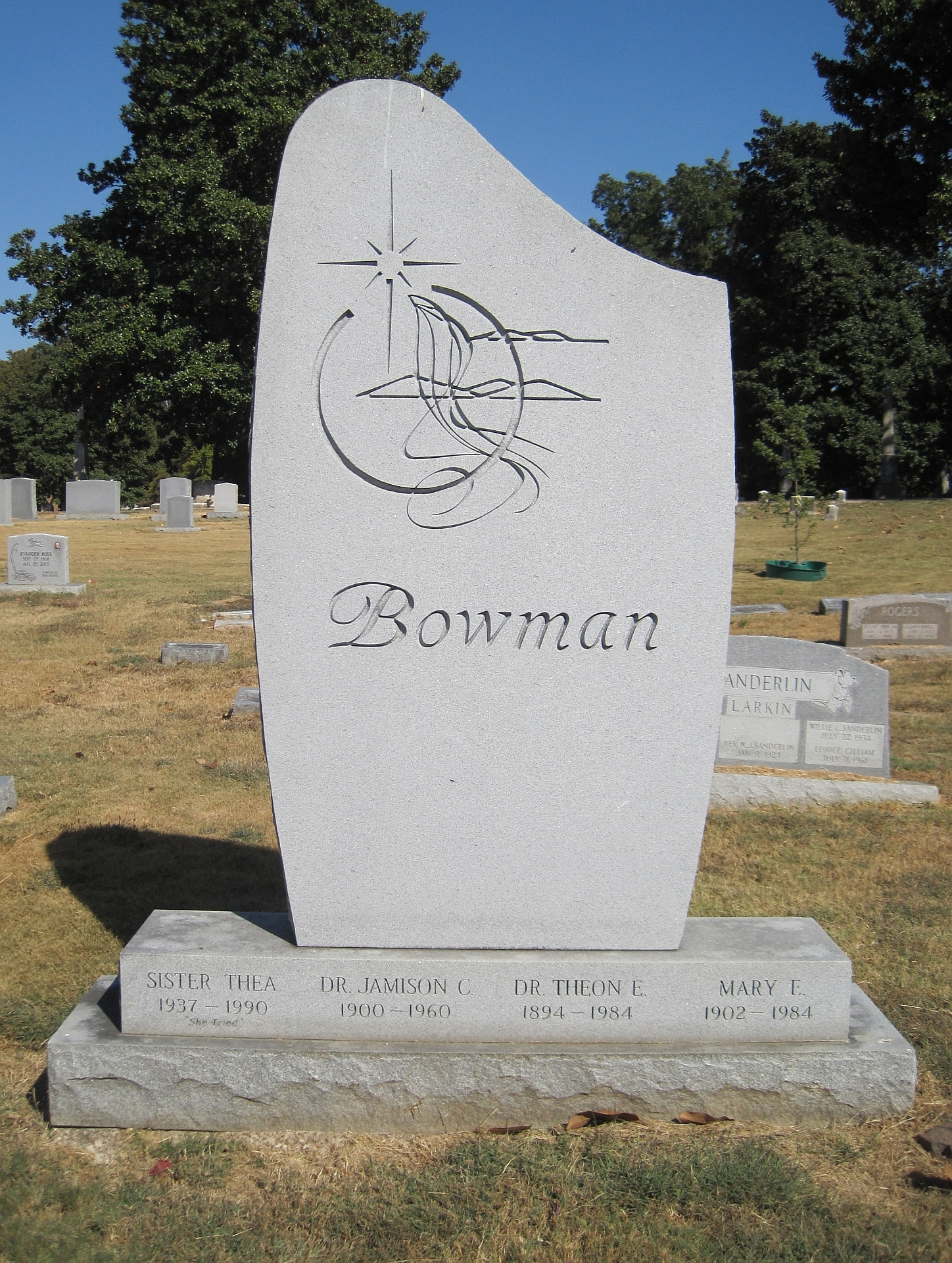 Elmwood Cemetery on South Dudley Street in Memphis, Tennessee. Grave of Sister Thea, Dr. Jamison C., Dr. Theon E. and Mary E. Bowman